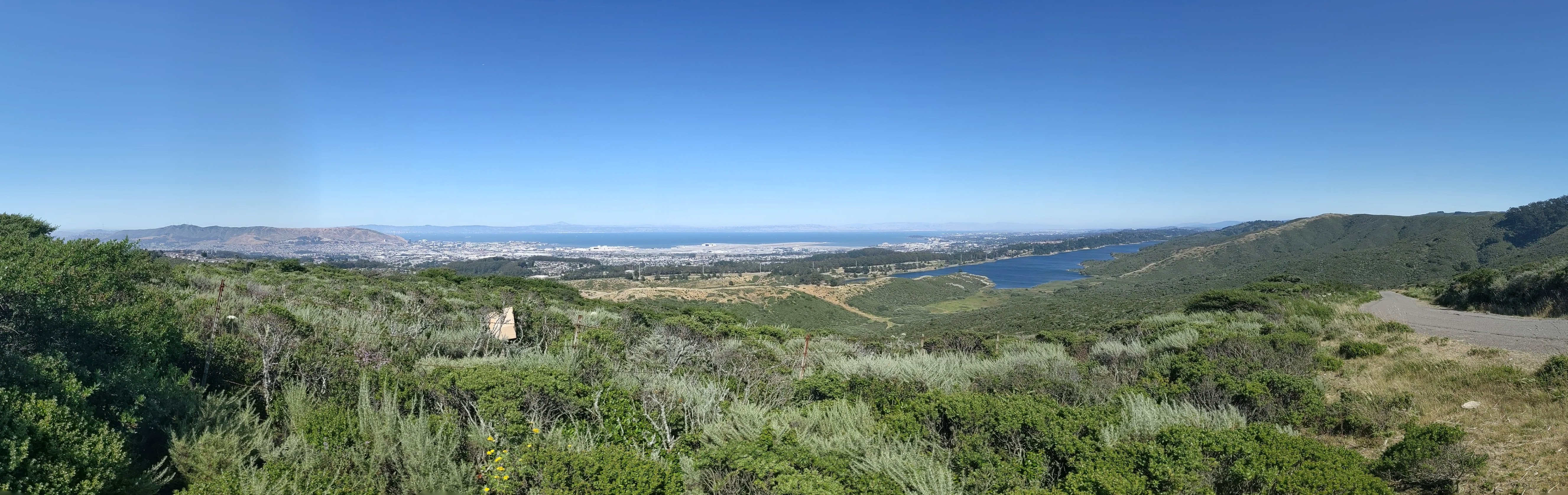 A panorama from near the summit of Sweeney Ridge trail